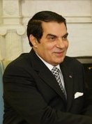 Tunisian President Zine Al-Abidine Ben Ali at a visit to George W. Bush, February 2004